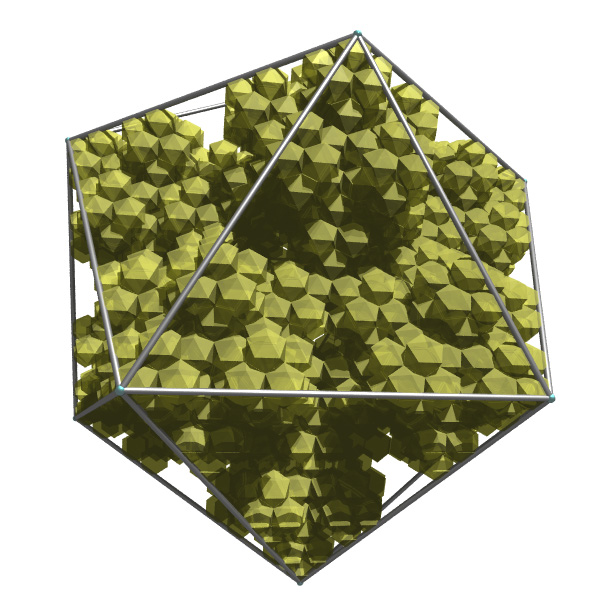 Icosaedron fractal. scale factor: 1/(1+phi), replication factor: 12